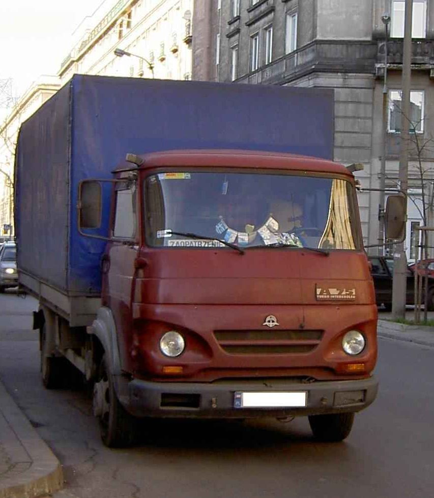 Avia A75 truck seen in Warsaw, Poland. Picture taken by me in december 2006.